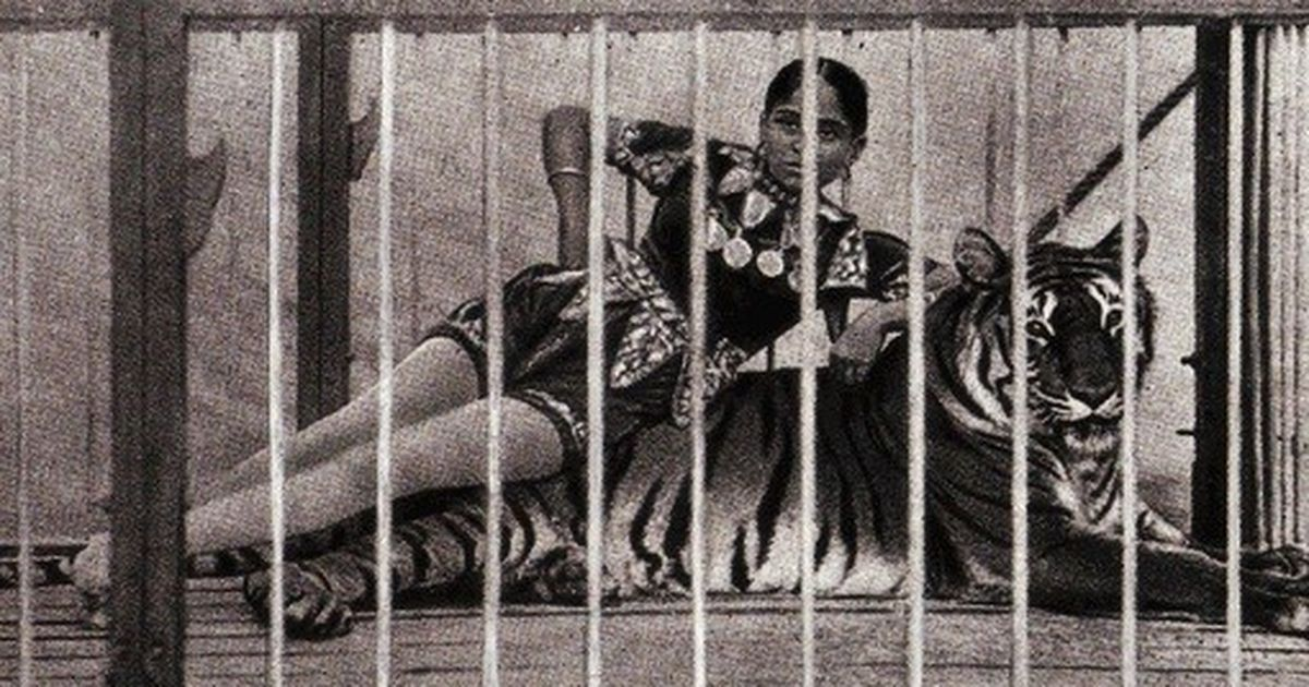 A photograph showing Sushila Sundari posing for photograph on top of a tigress named Lakshmi in its cage at the Great Bengal Circus.